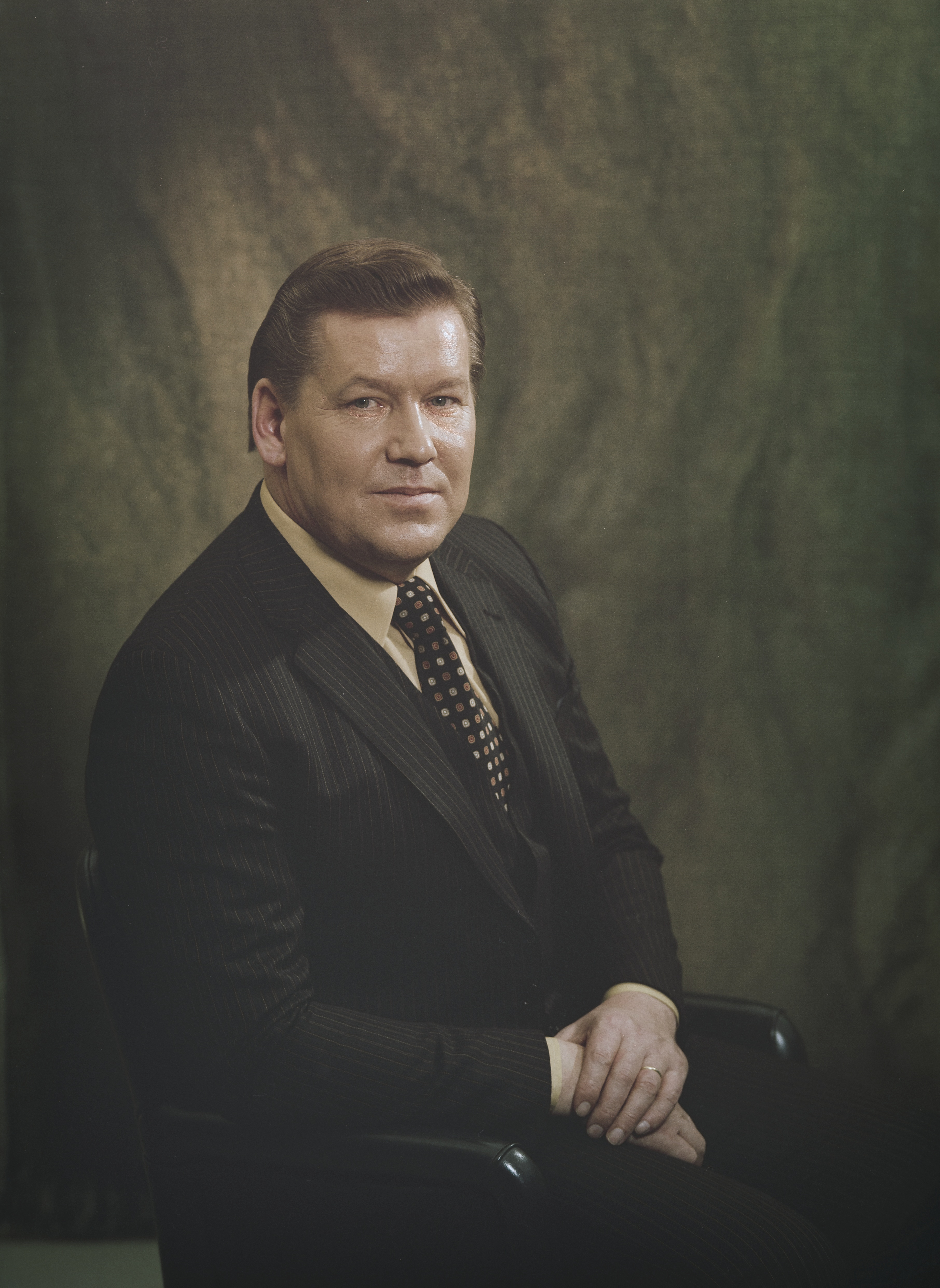 Photograph of the Finnish trade unionist Pertti Viinanen (1937–2012).